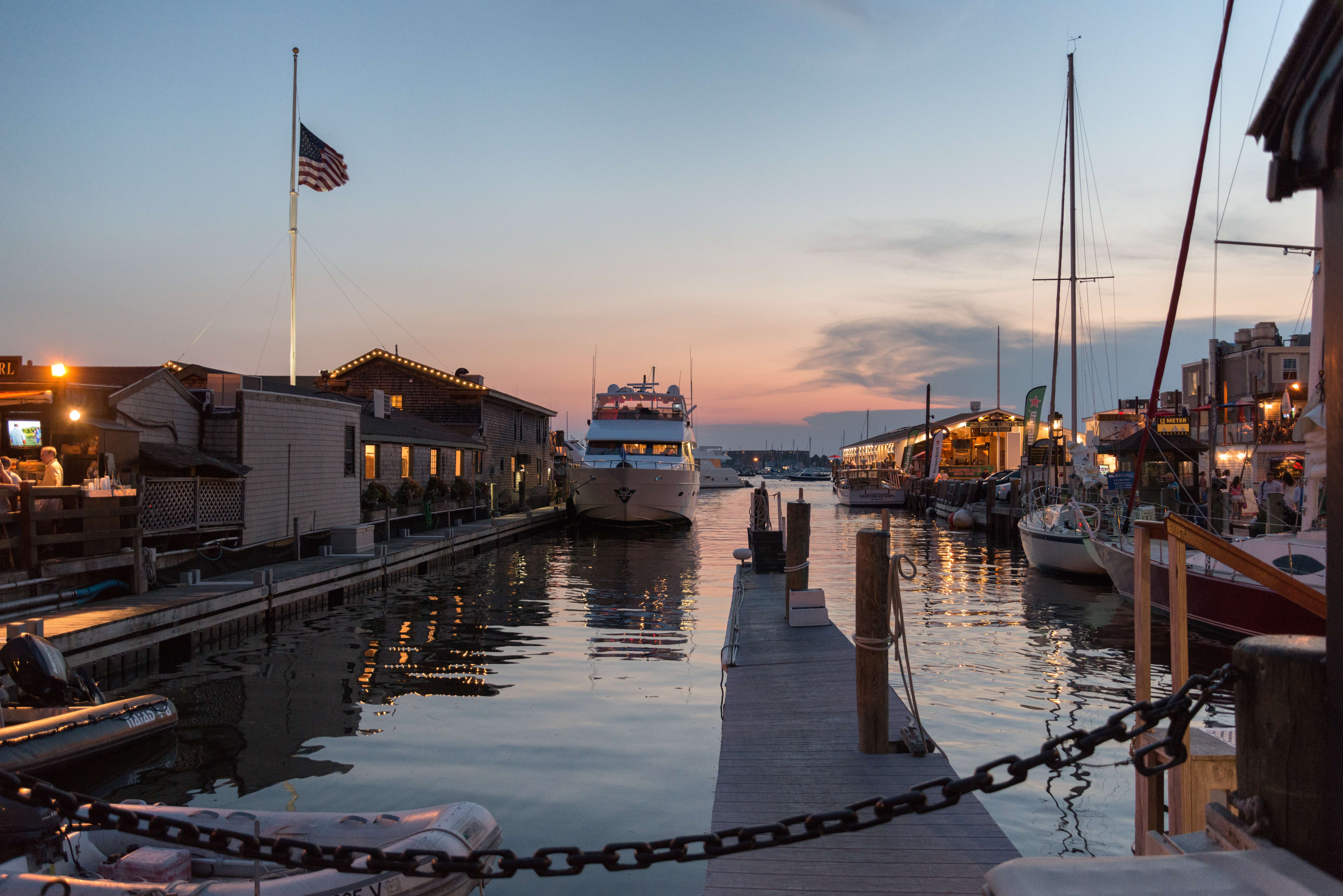 Bannister's & Bowens Wharfs - Newport, Rhode Island, USA